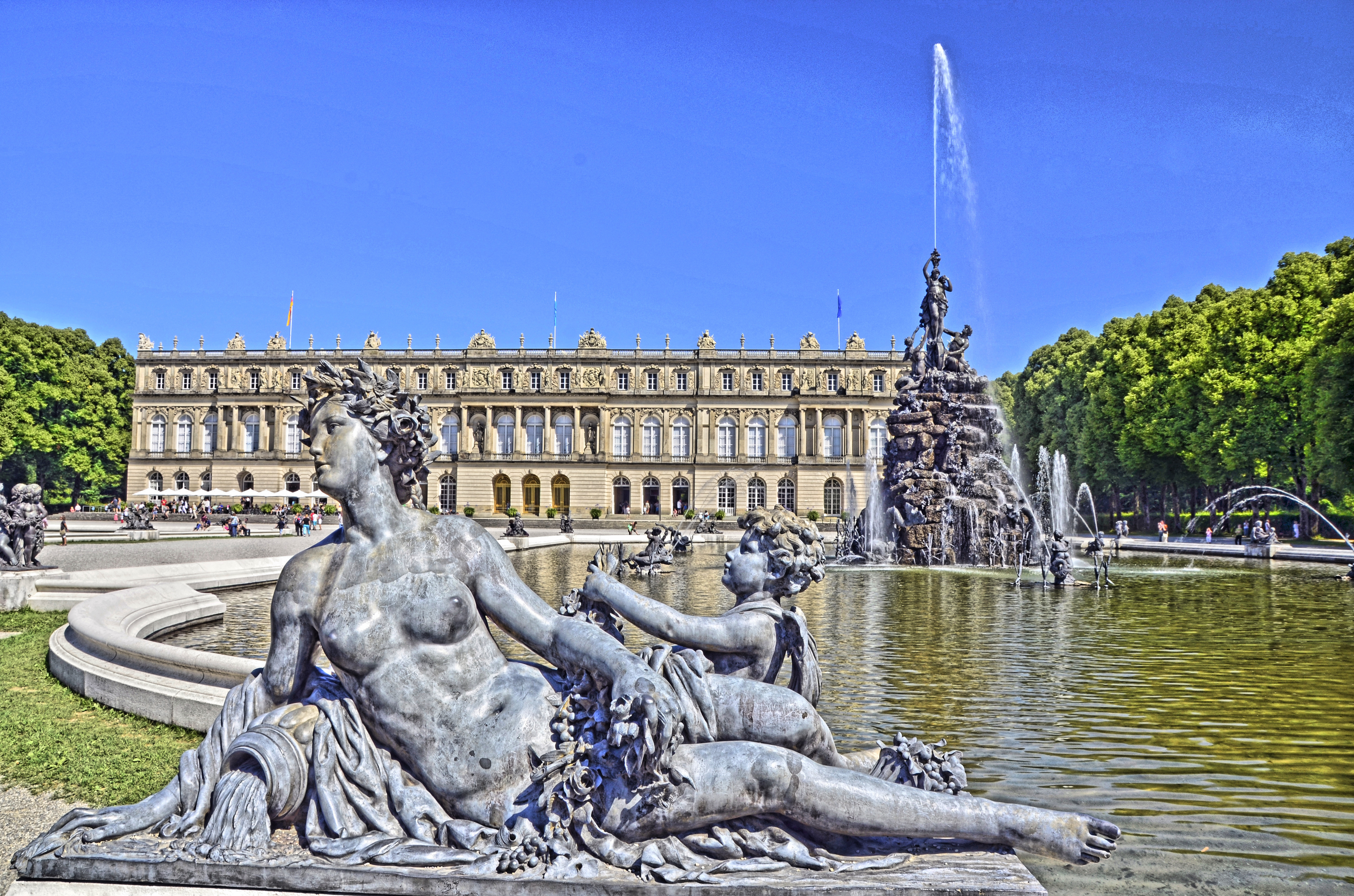 Parc of Herrenchiemsee (Germany)- Fountain with figure